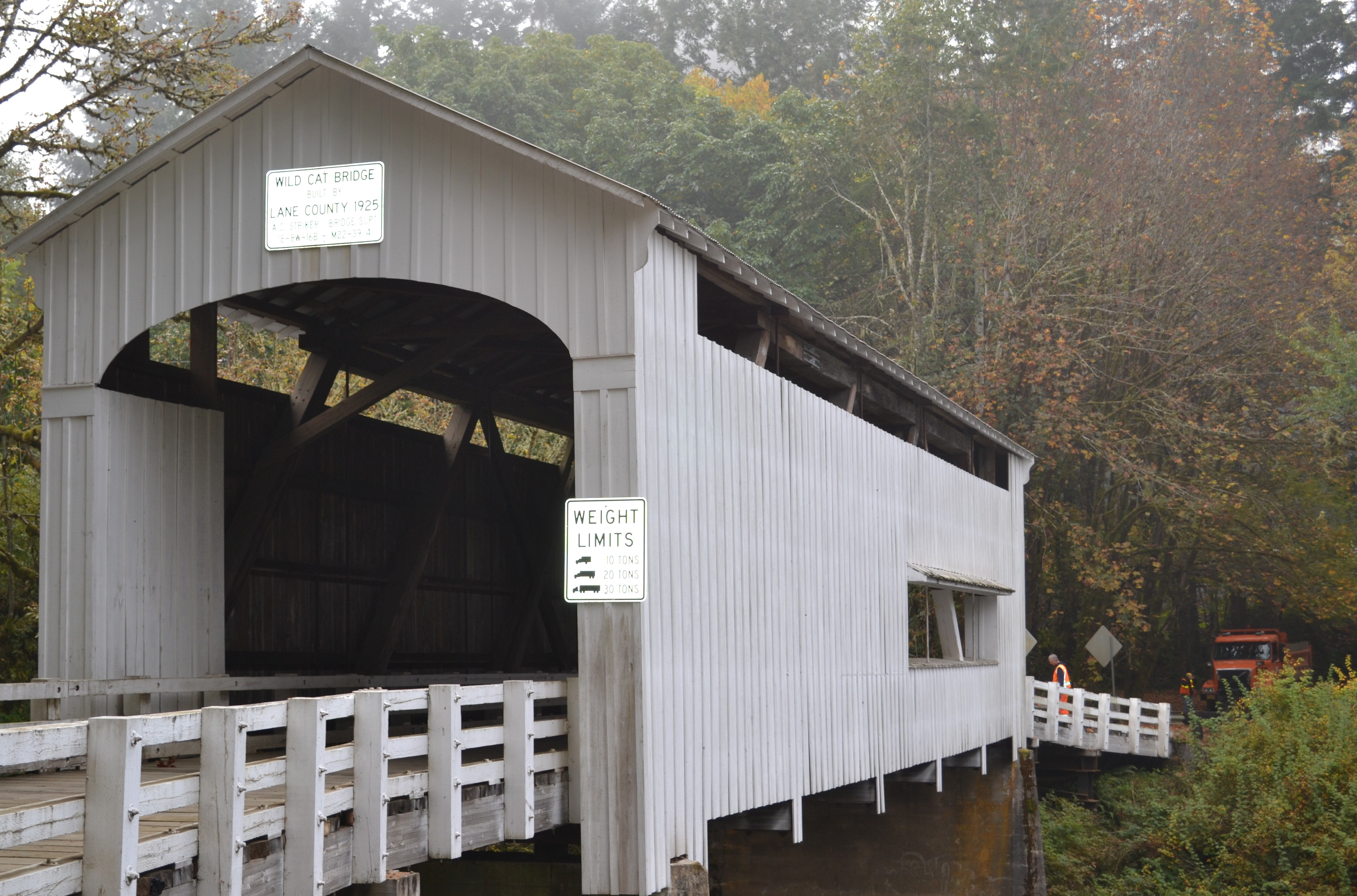 Wildcat Creek Bridge in Lane County, Oregon. Built in 1925.